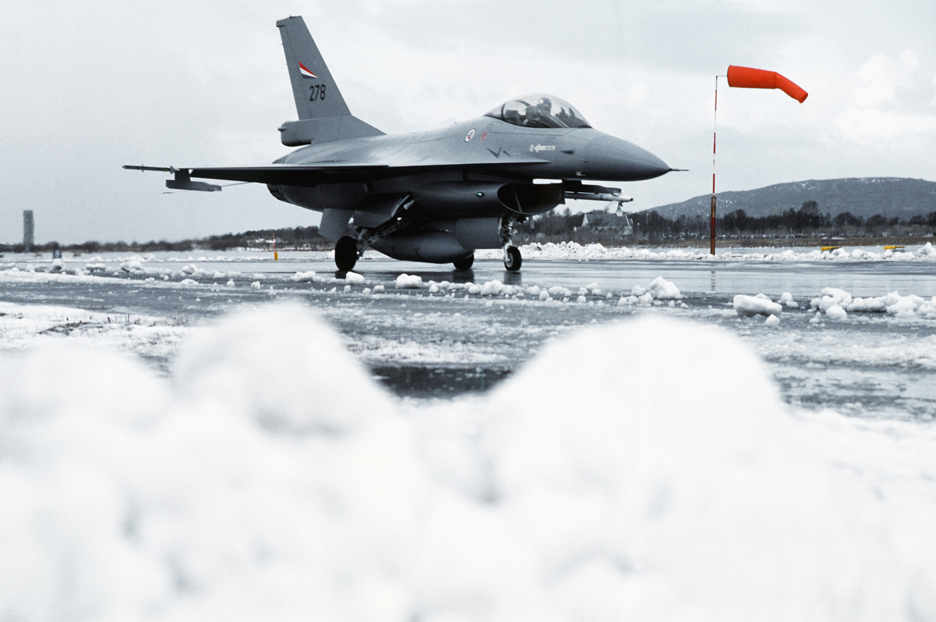 A Norwegian F-16A Fighting Falcon aircraft prepares to take off the participate in exercise Alloy Express. Ice and snow has been pushed off to the side of the runway.